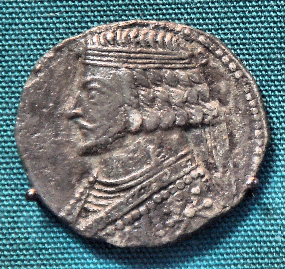 Coin of Phraates IV